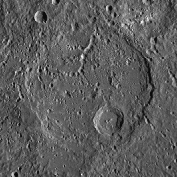 Sophocles crater, on Mercury. MESSENGER Wide Angle Camera mosaic. Image is approximately 204 km wide.